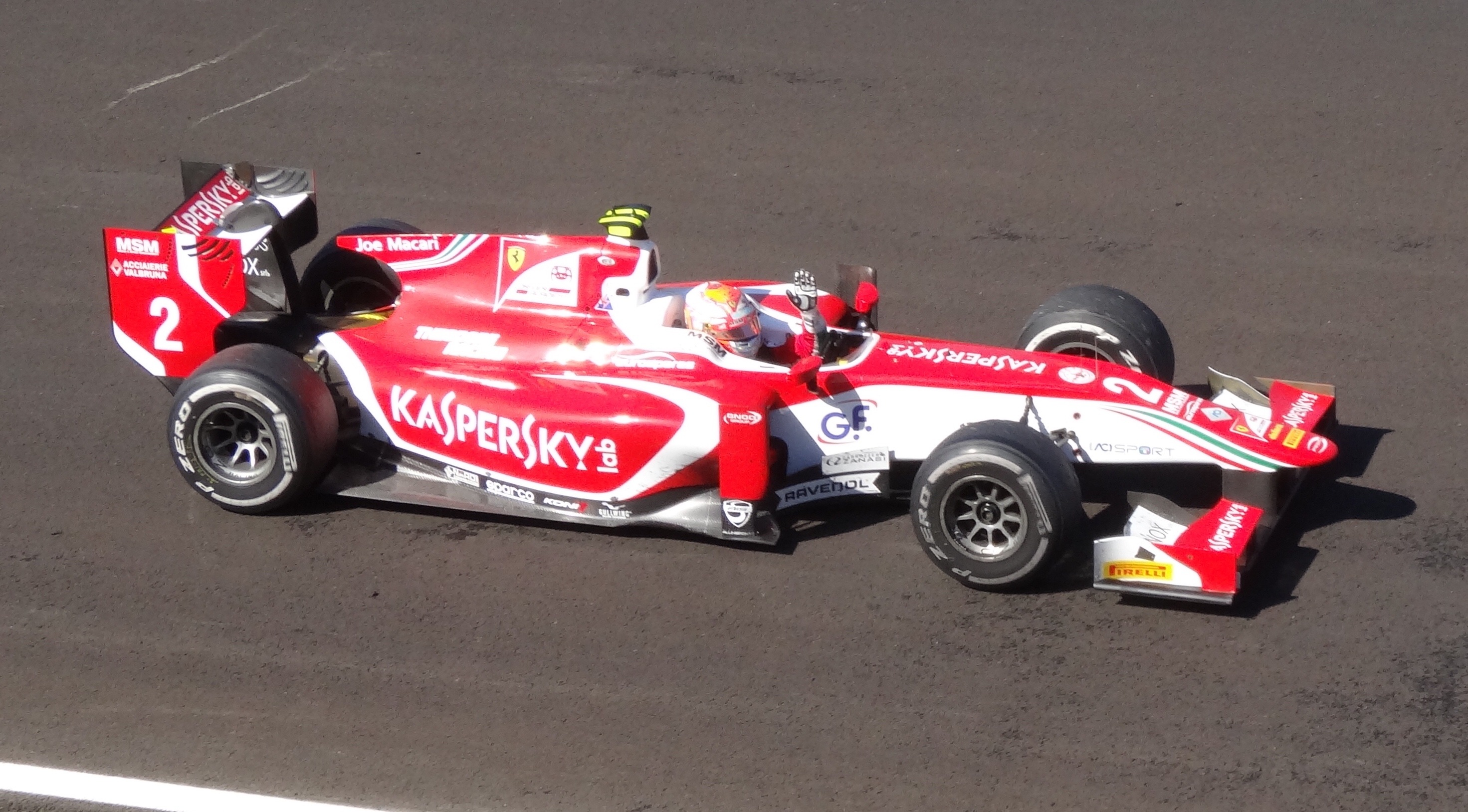 Antonio Fuoco Monza F2 2017